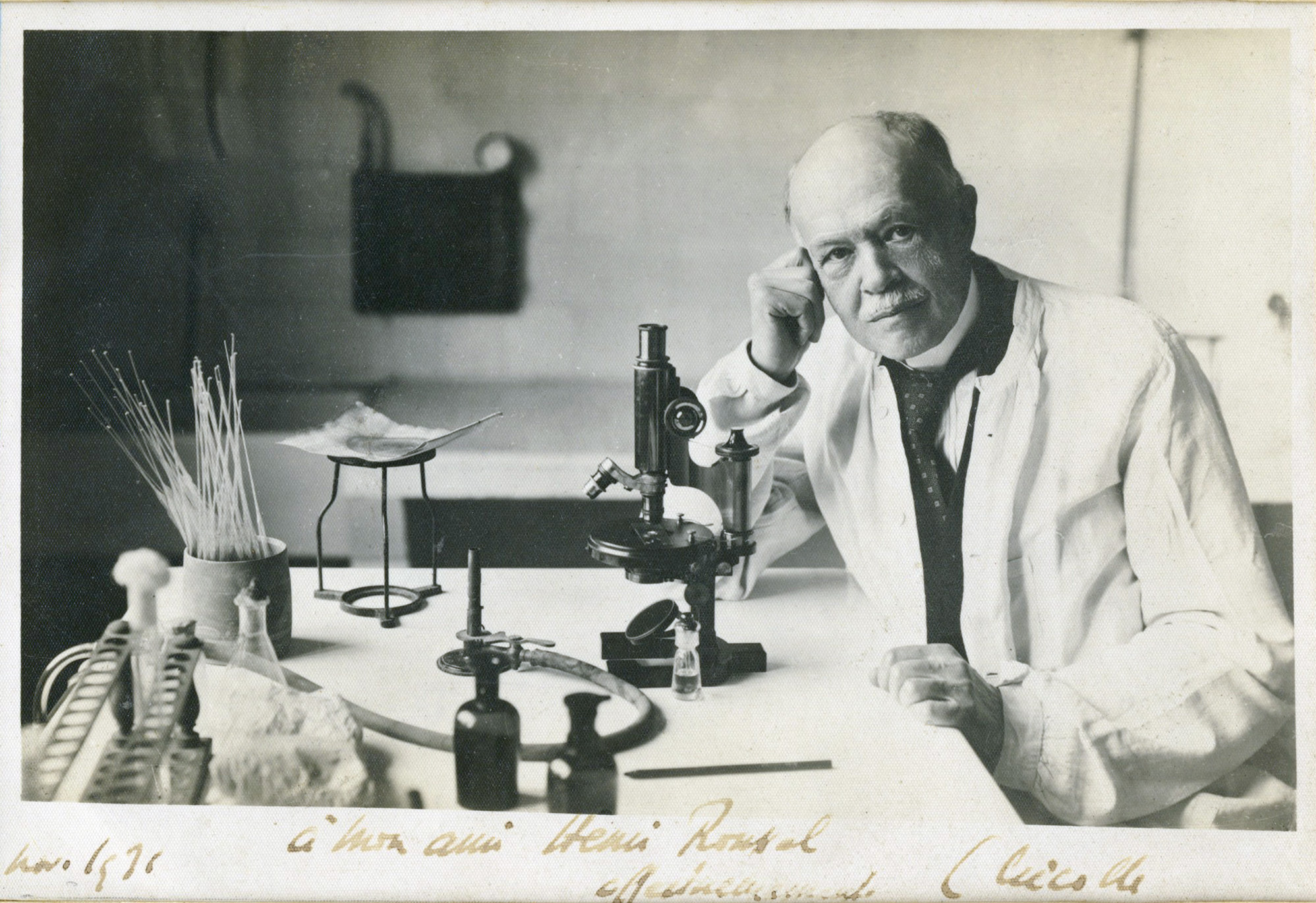 The most famous photo of Charles Nicolle. This copy is inscribed to Henri Roussel.